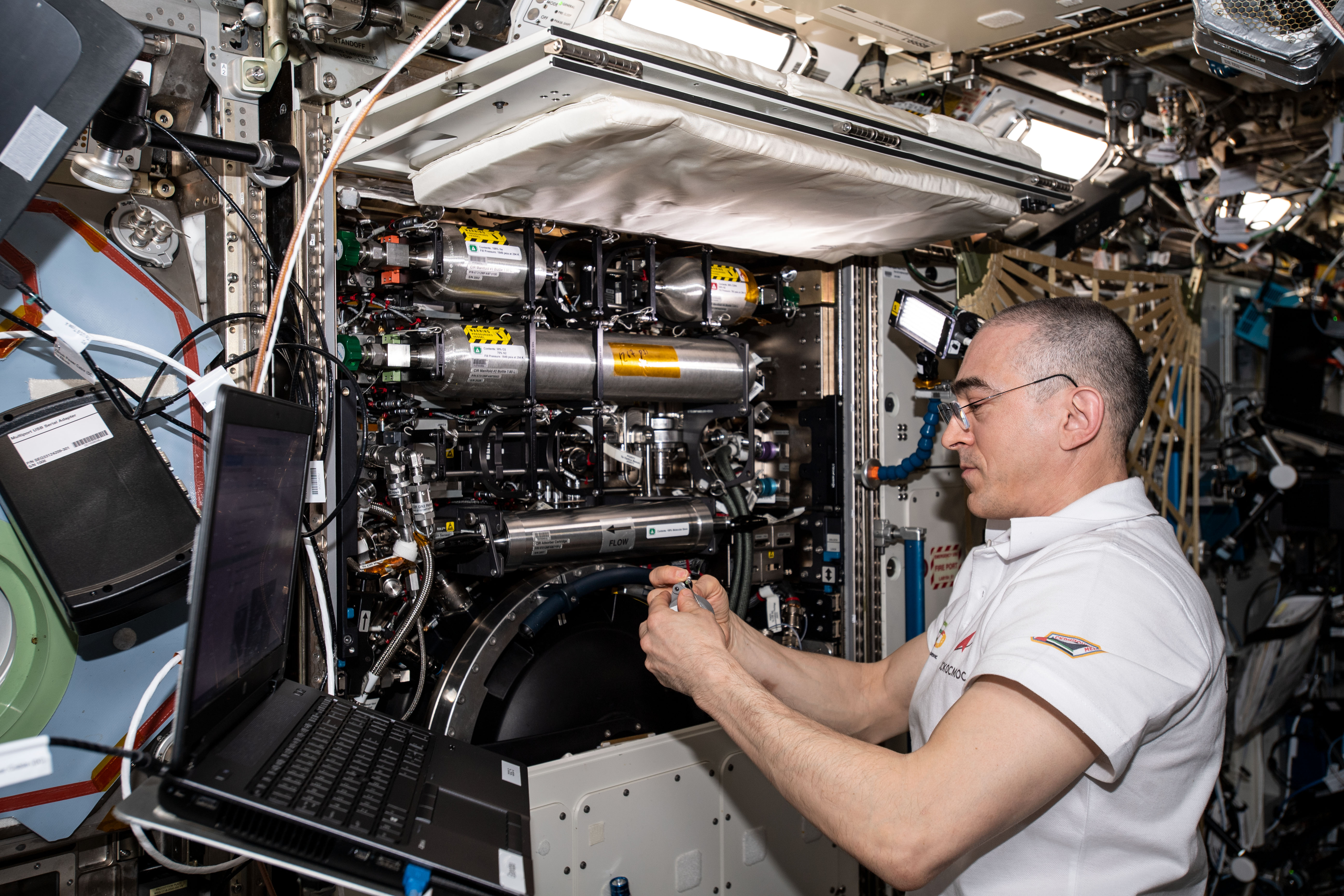 Roscosmos cosmonaut and Expedition 63 Flight Engineer Anatoly Ivanishin services components and replaces fuel bottles inside the Combustion Integrated Rack (CIR). The CIR is a research device that enables safe fuel, flame and soot studies in microgravity.